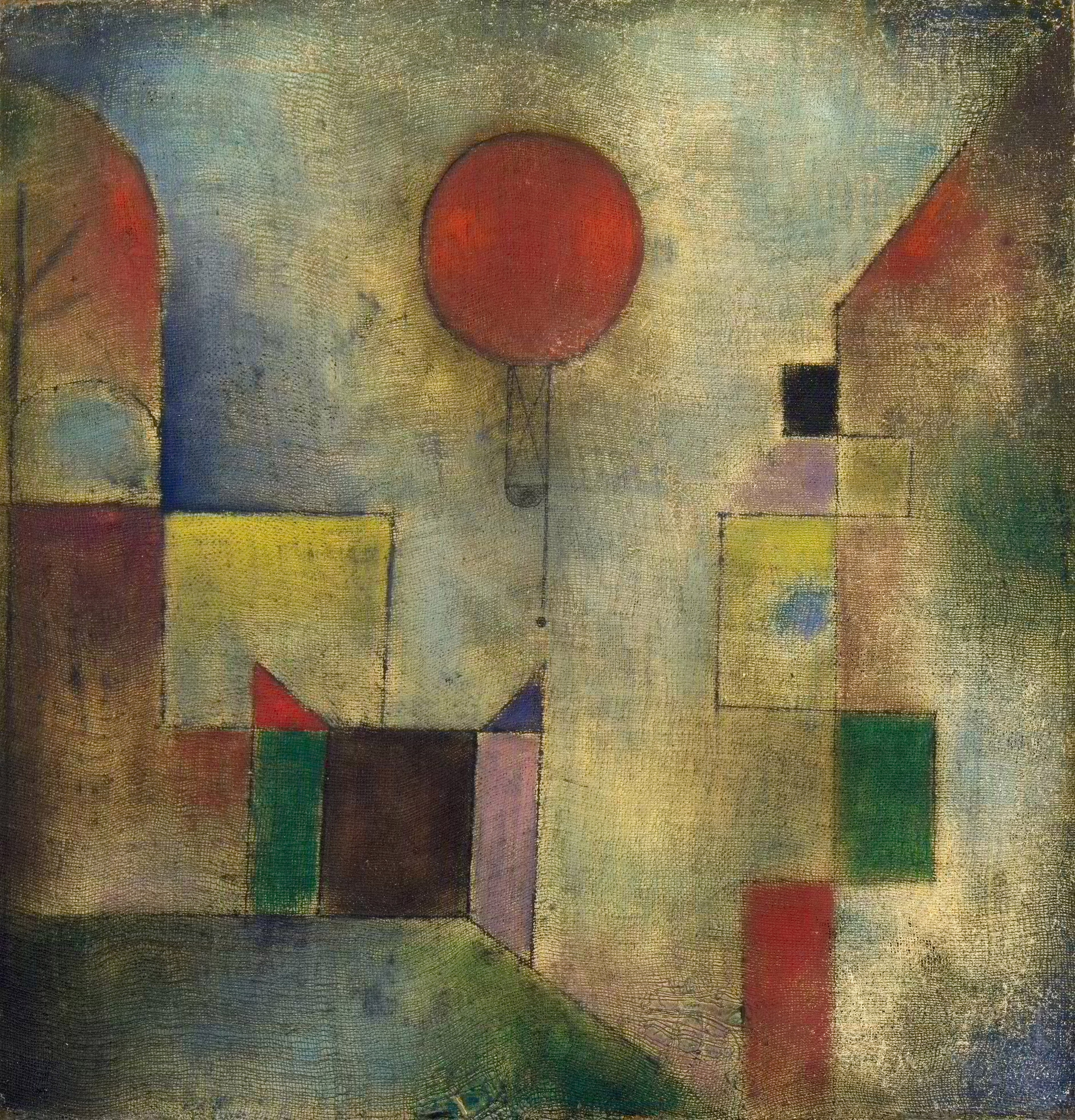 Paul Klee, Red Balloon (Roter Ballon), 1922. Oil (and oil transfer drawing?) on chalk-primed gauze, mounted on board, 12 1/2 × 12 1/4 inches (31.7 × 31.1 cm). Solomon R. Guggenheim Museum, New York